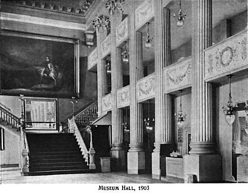 Boston Museum, Tremont St., in 1903. Thomas Sully's 1819 painting "Passage of the Delaware" is visible on the far wall.